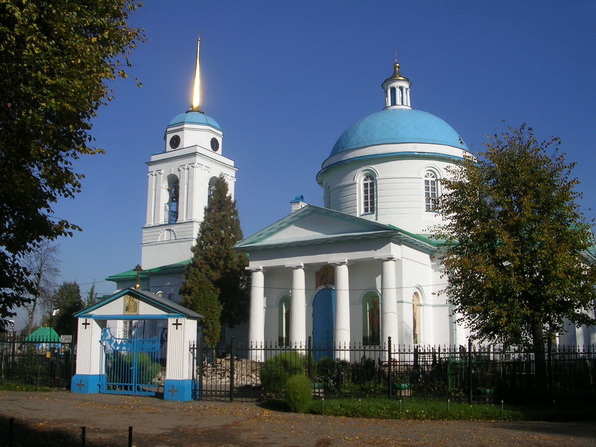 Theotokos of Kazan Temple in Ivanisovo, Noginsk district of Moscow oblast.